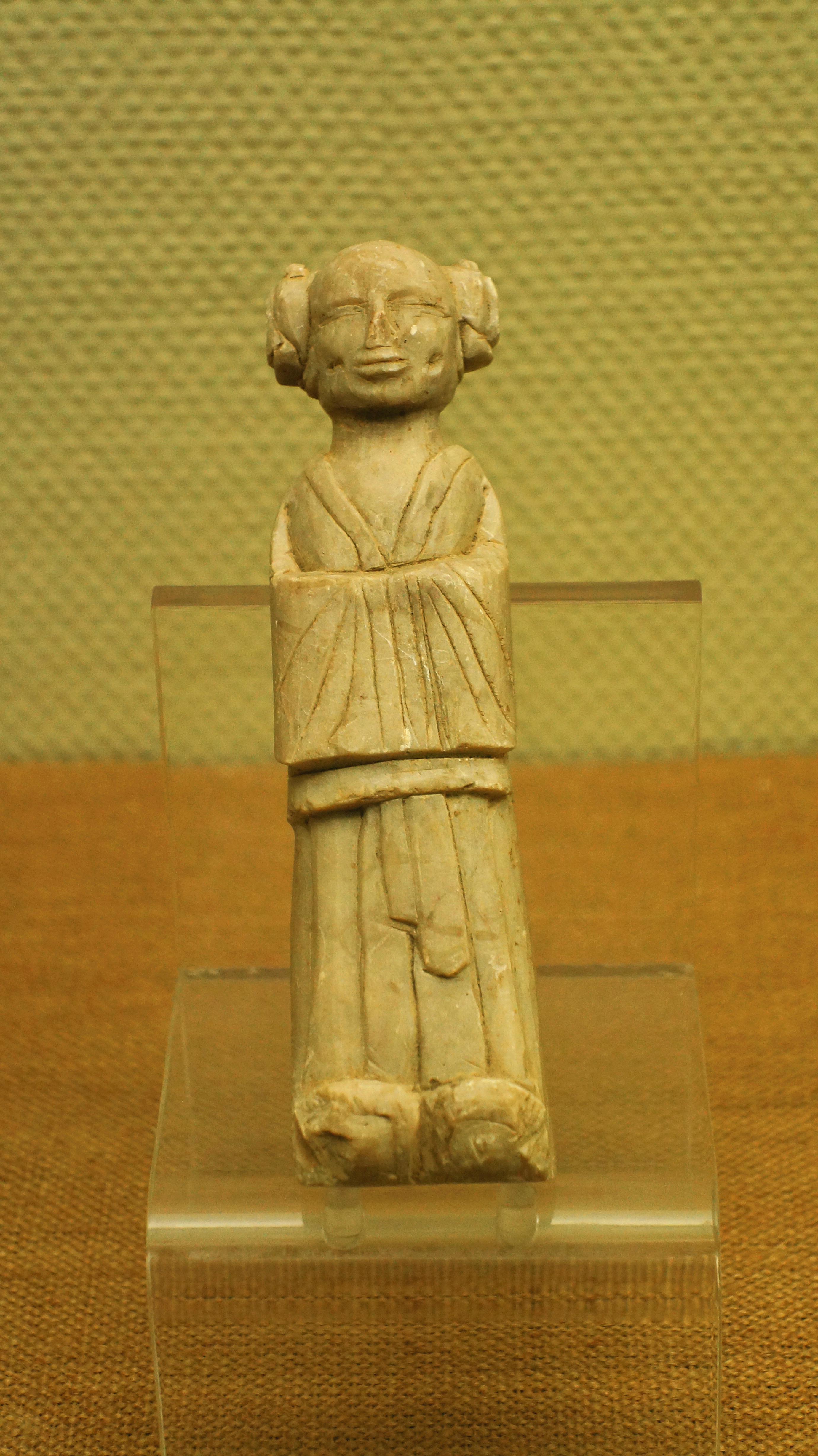 Talcum female figurine. Southern dynasty.